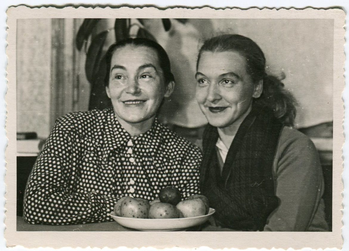 Ieva Lase with her sister actress Ruth Birgere in the winter of 1957